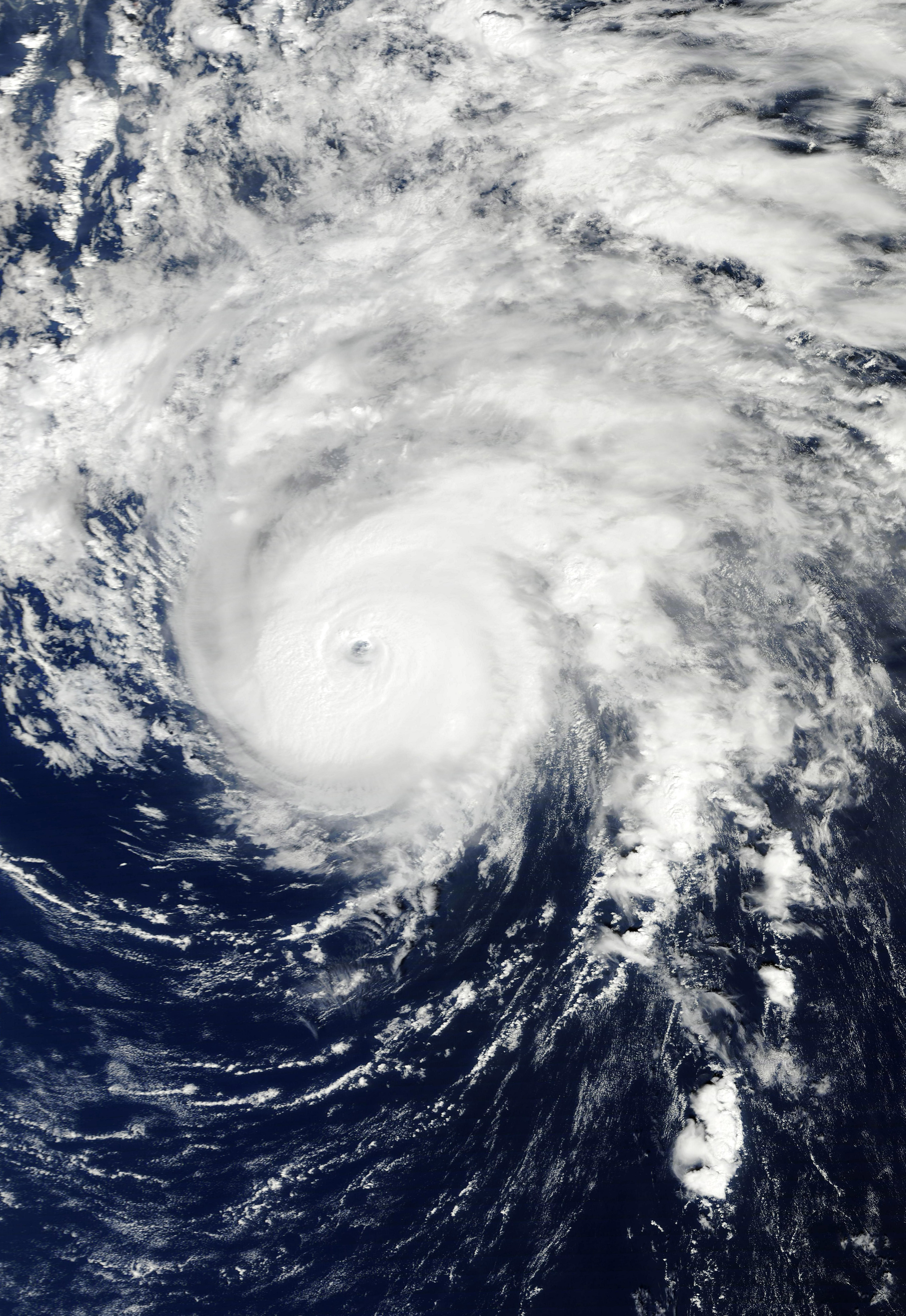 Hurricane Ophelia on October 1, 2011